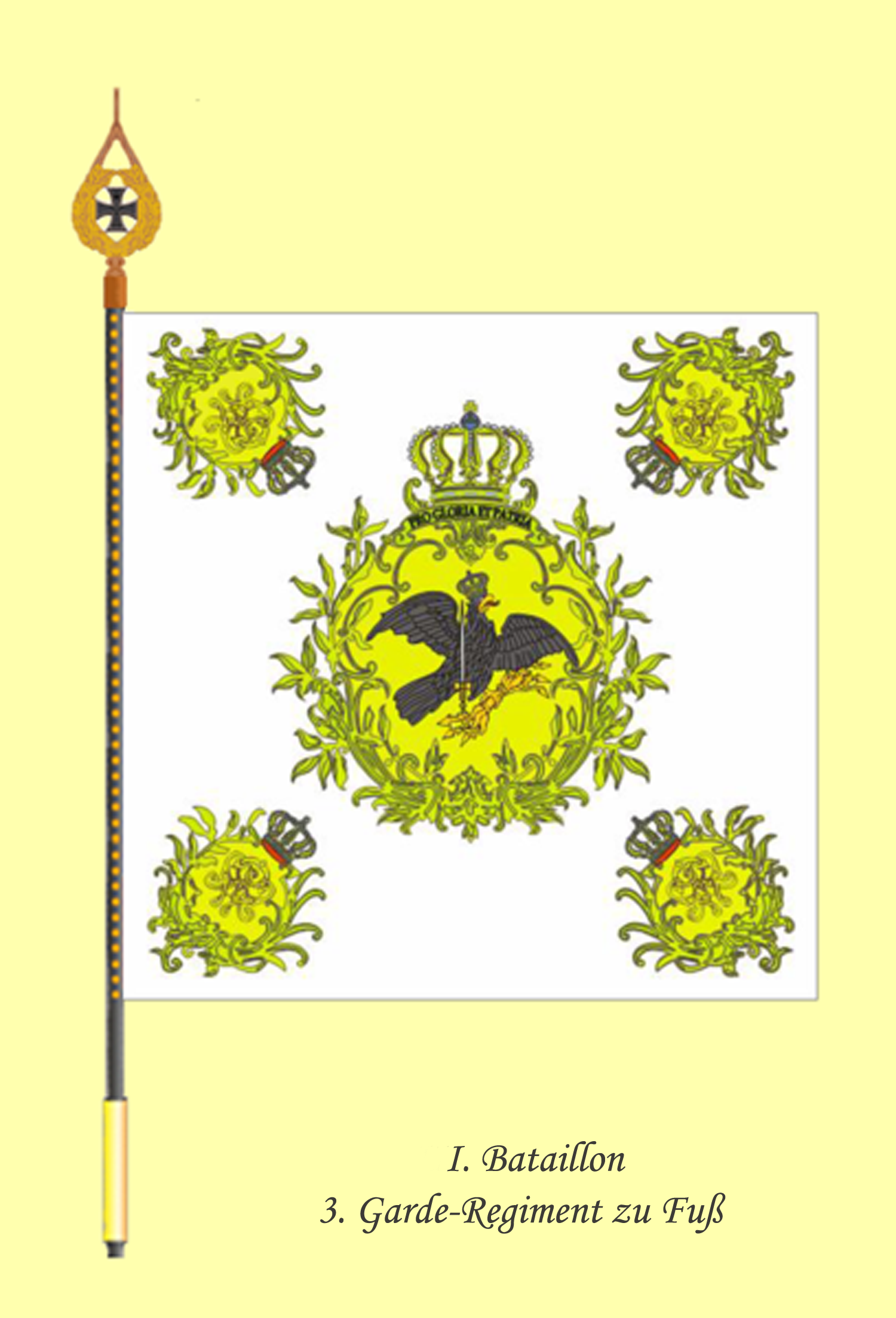 Colors of the 1st Battalion of the Prussian 3rd Regiment of Foot Guards